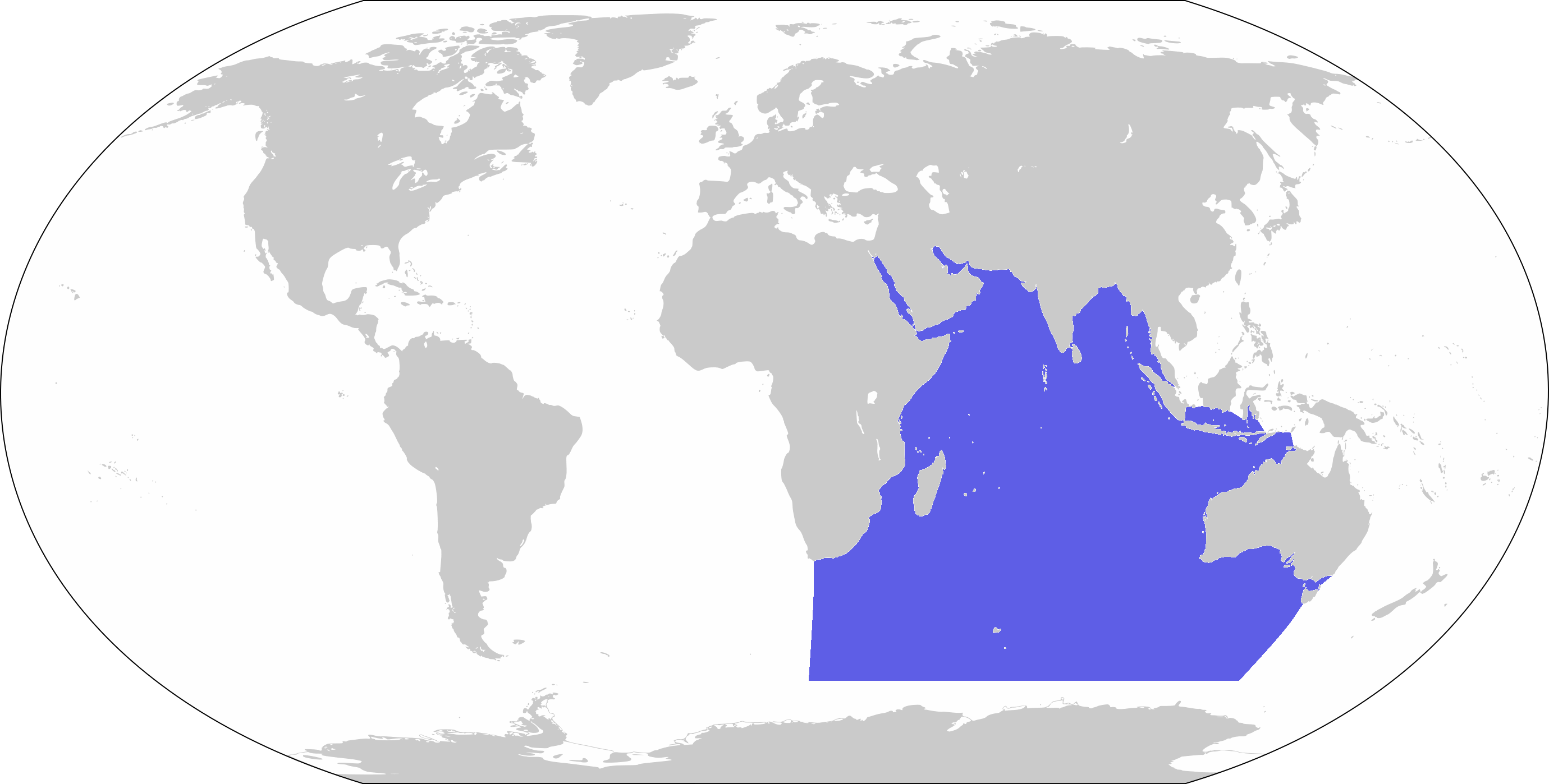 World map depicting Indian Ocean; map adapted from PDF World map at CIA World Fact Book